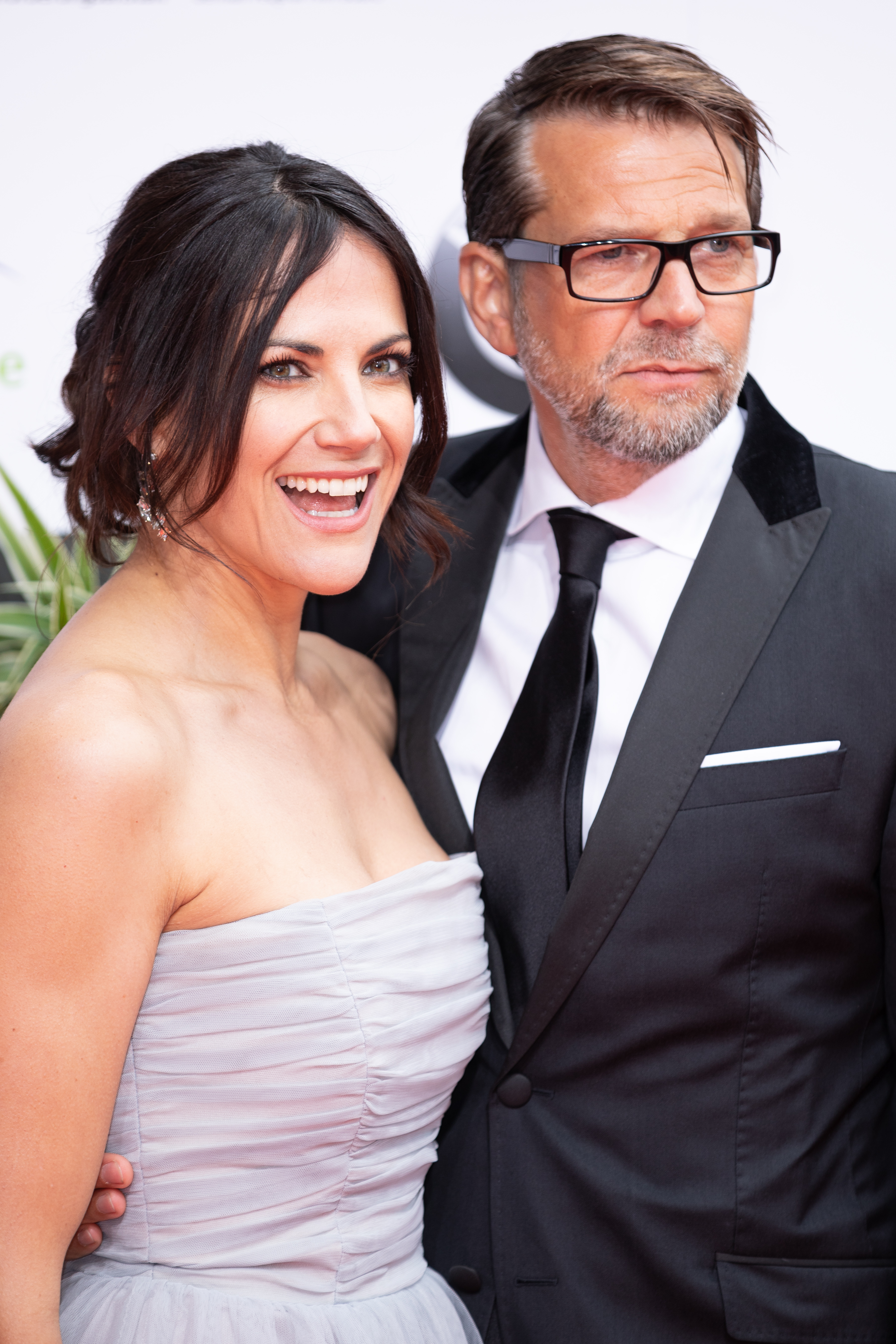 Bettina Zimmermann and Kai Wiesinger on the red carpet of the German Film Award 2019, Palais am Funkturm, Berlin.